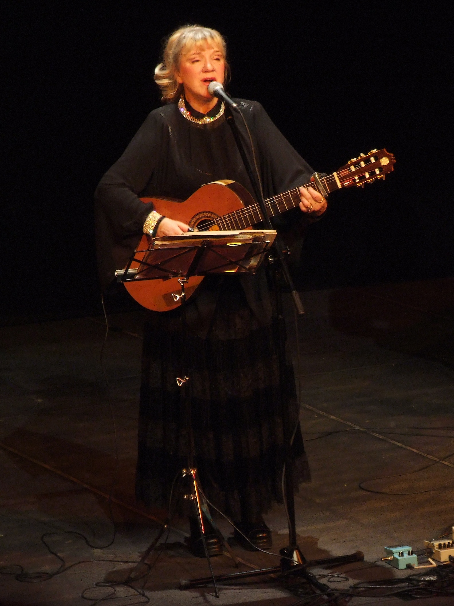 The prominent Russian singer Zhanna Bichevskaya (Жанна Бичевская) at a concert in Zielona Góra, Poland. October 2006 Author: Mohylek